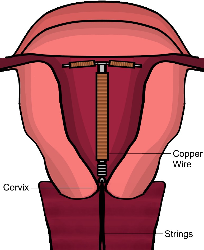 A diagram showing a copper intrauterine device (IUD) in place in uterus.